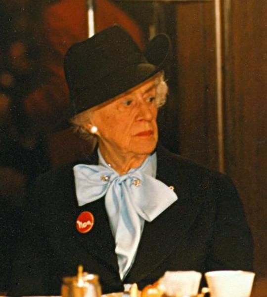 Thérèse Casgrain at a fundraising meeting for the Liberal Party at the Queen Elizabeth Hotel in Montréal, Québec.